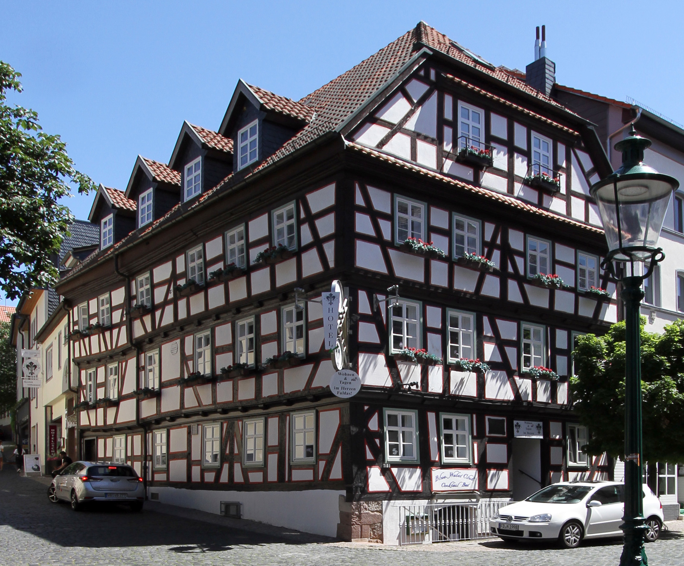 Birthplace of Ferdinand Braun in Fulda